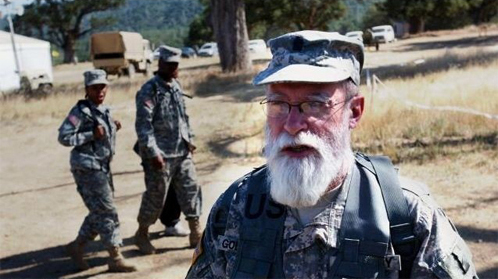 Army Reserve Jewish Chaplain (Colonel) Jacob Goldstein, during duty in Fort Buchanan, Puerto Rico.